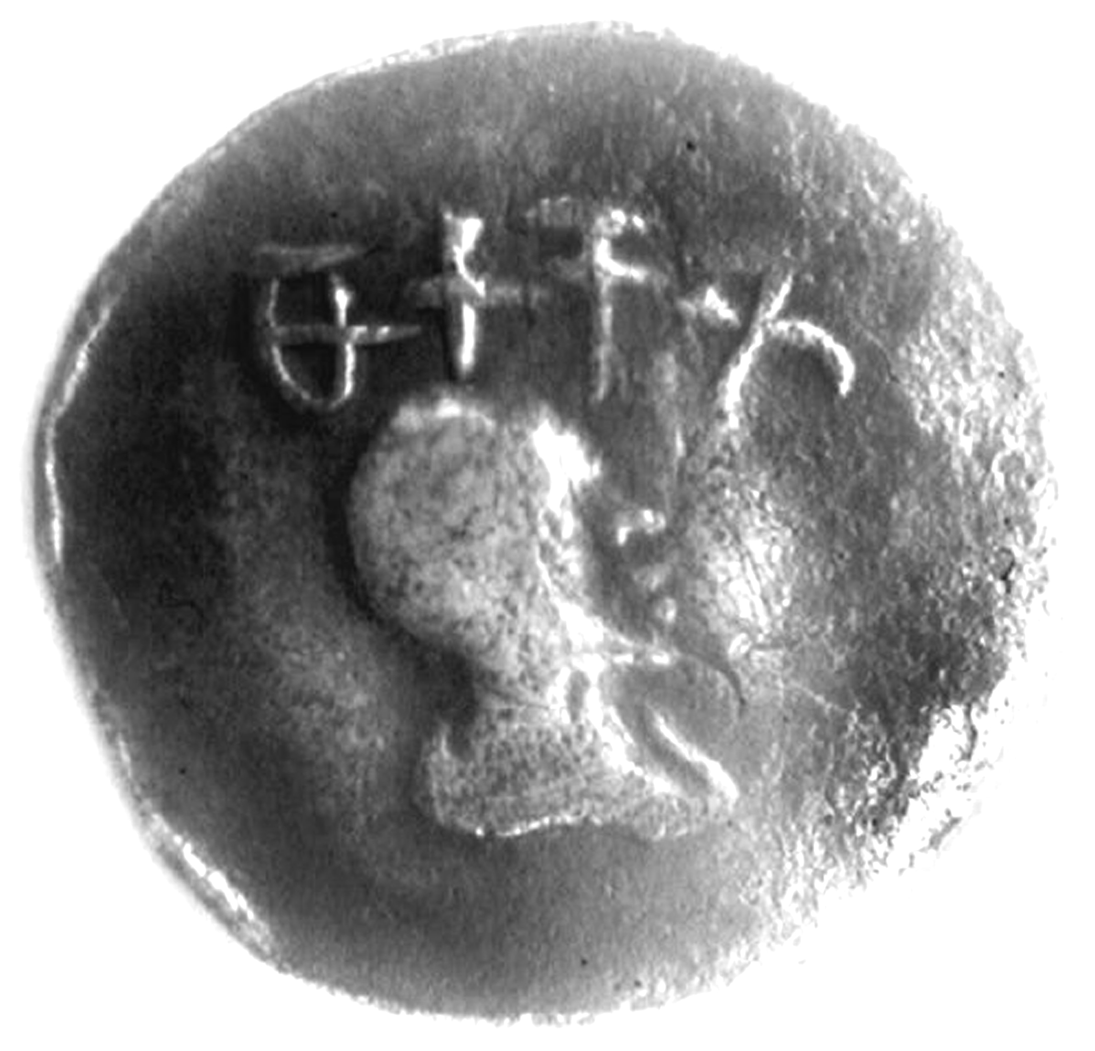 Chera coin (ancient south India) with Brahmi legend "Makkotai".